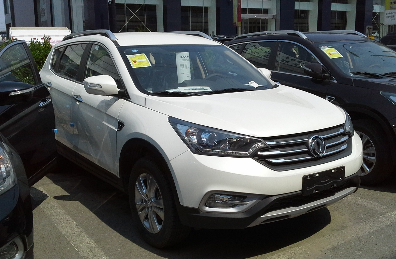 Dongfeng Fengshen AX7 photographed in Beijing, China.